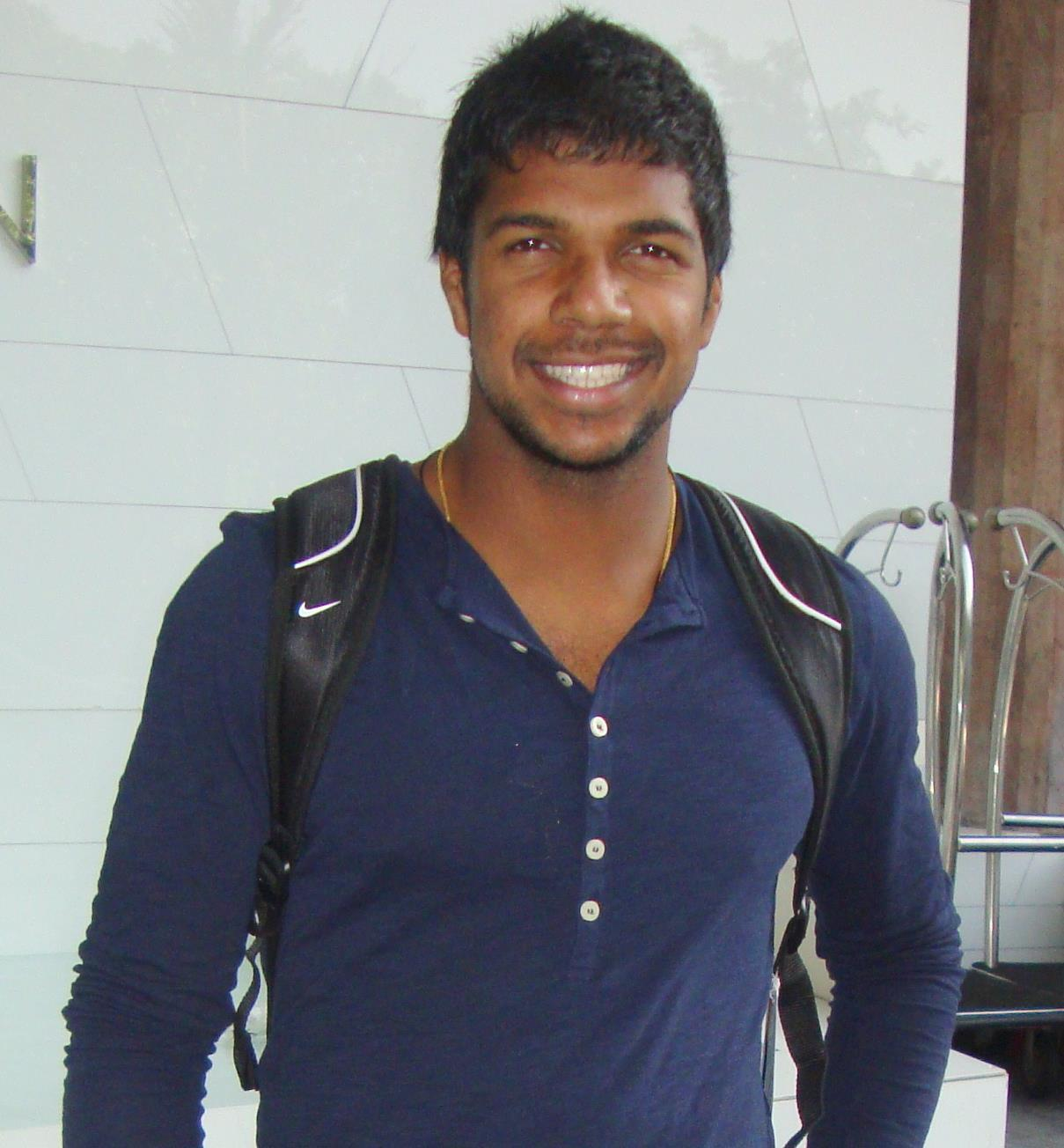 Indian cricketer Varun Aaron